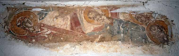 Saint George Church in Bistrica, Dormition of Mary Fresco